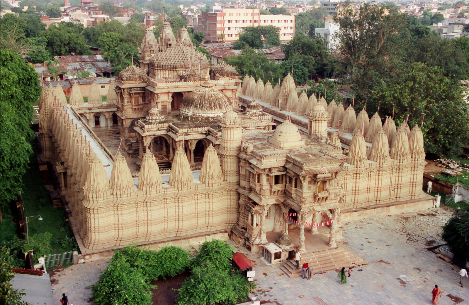 This is a heritage place.Foreigners are visiting it for its artistic architecture.Its a Jain Temple situated o/s Delhi Darwaja.